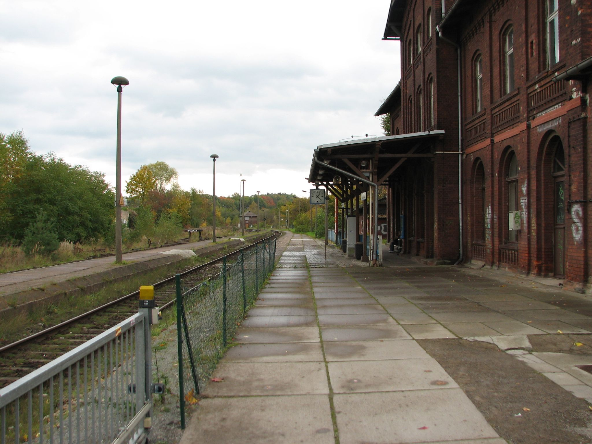 Train station of Stadtroda